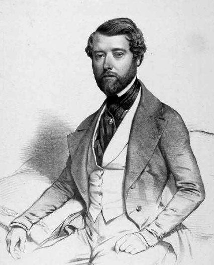 French composer and music publisher Alphonse Leduc (1804-1868) by Marie-Alexandre Alophe (1812-1883).